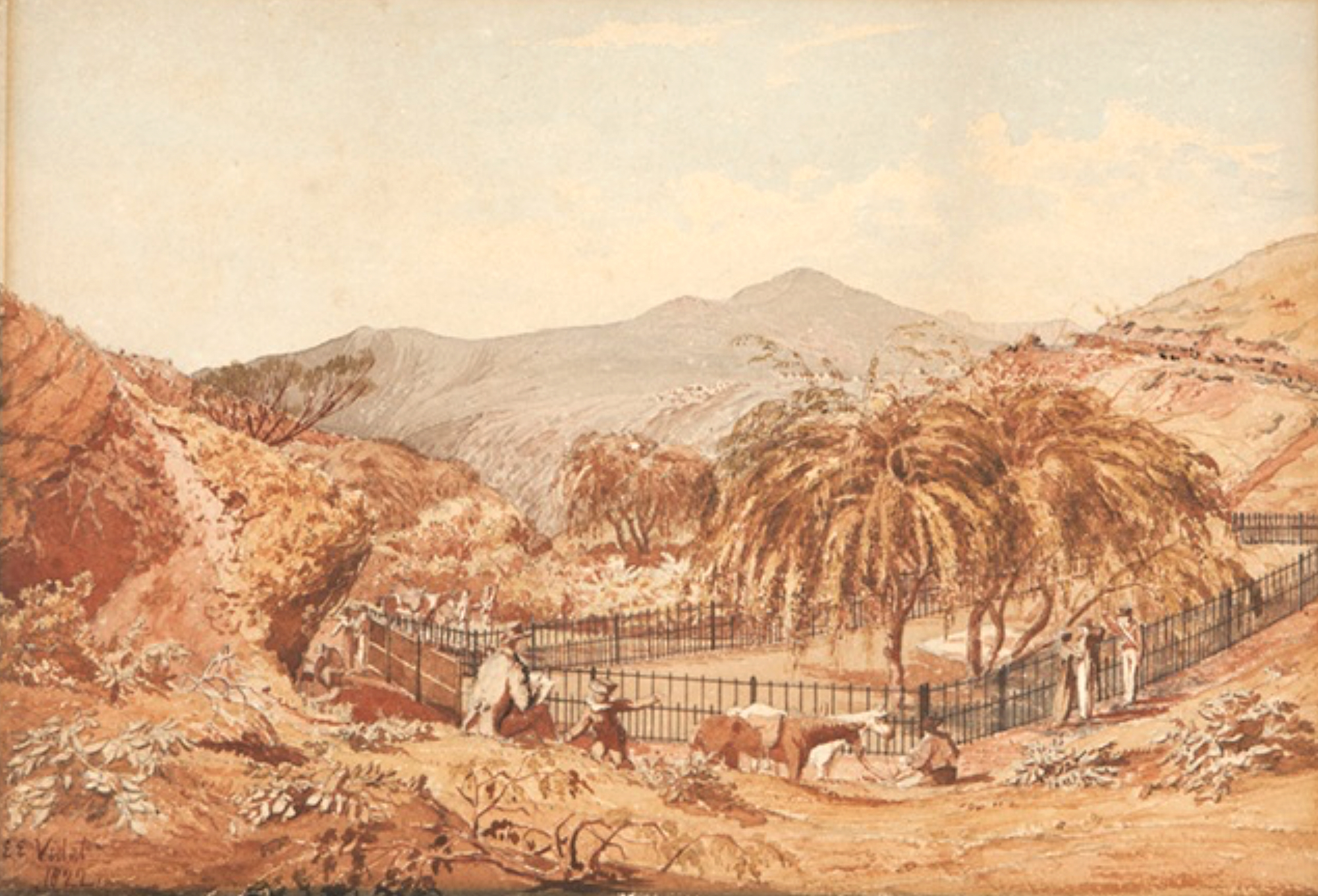 The tomb of Napoleon Bonaparte, St Helena, 1822, drawn by Emeric Essex Vidal